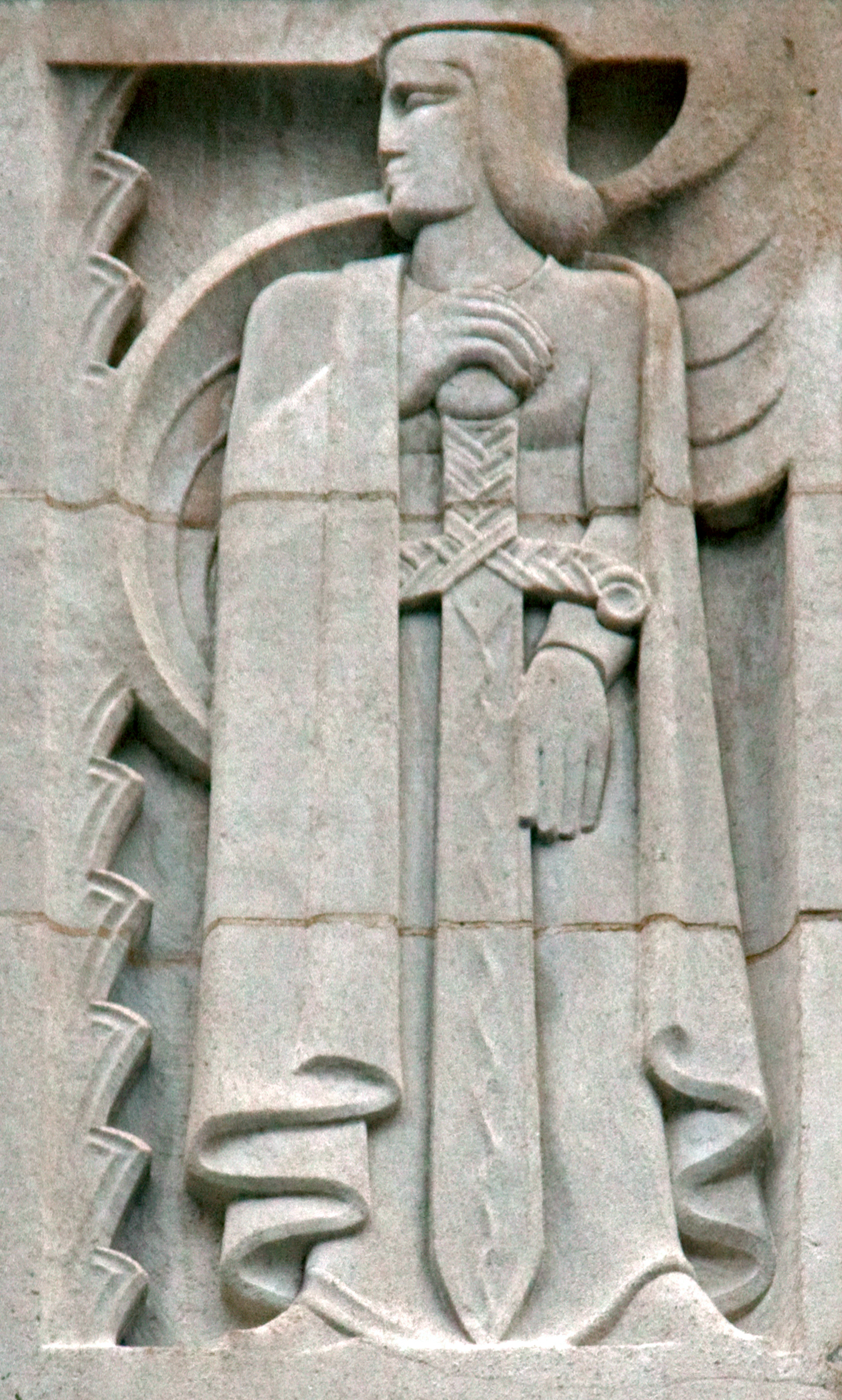 Fortitude by William Bloye - carving on the face of the Legal and general building, Waterloo Street, Birmingham